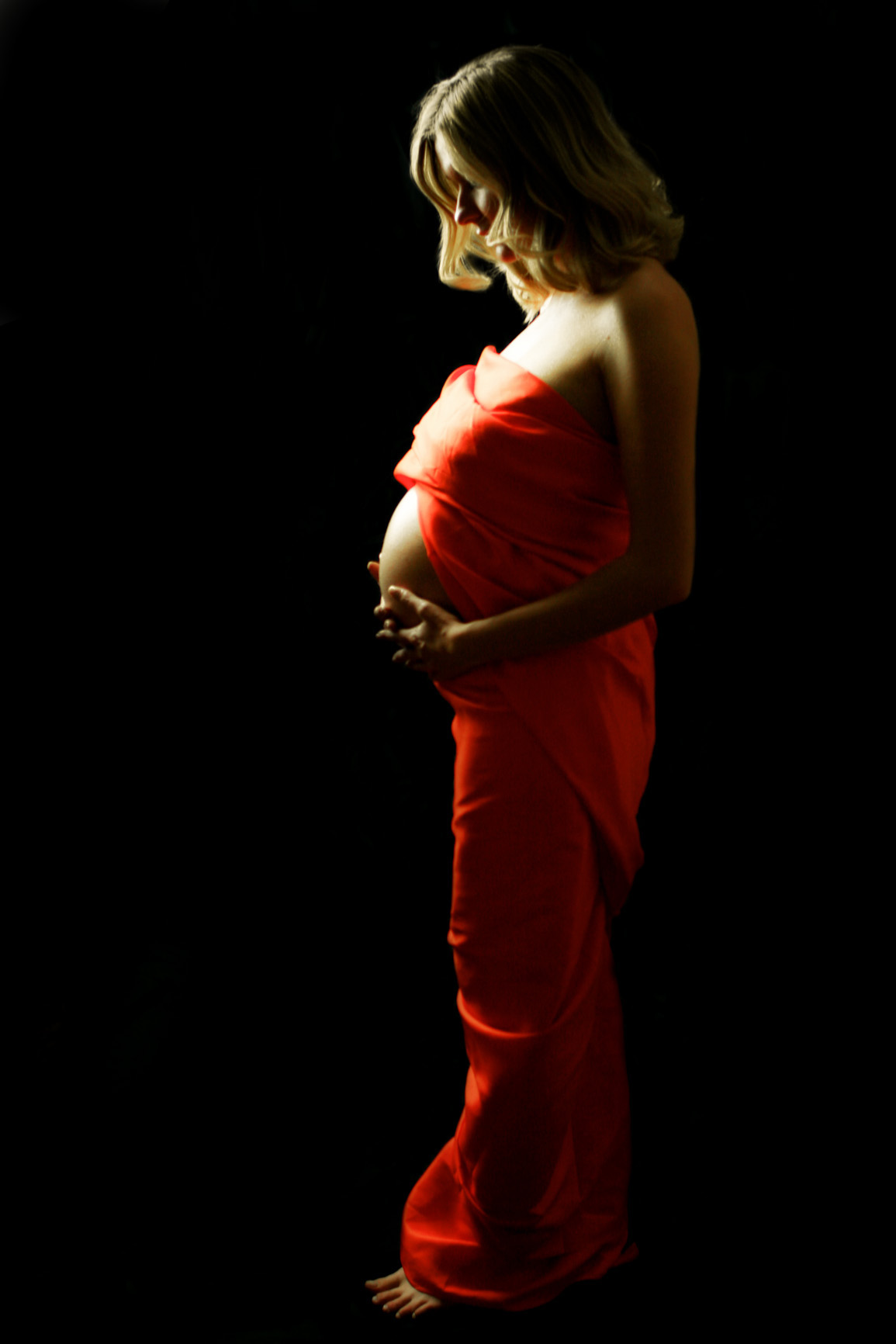 Pregnant Woman Portrait taken by Anna Kosali. Model: Maria Pesotskaya